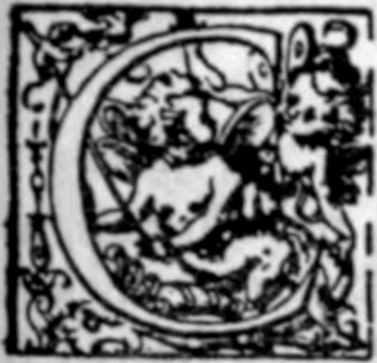 A figure from John Parkinson's 1629 illuminated manuscript on gardening, Paradisi in sole paradisus terrestris.